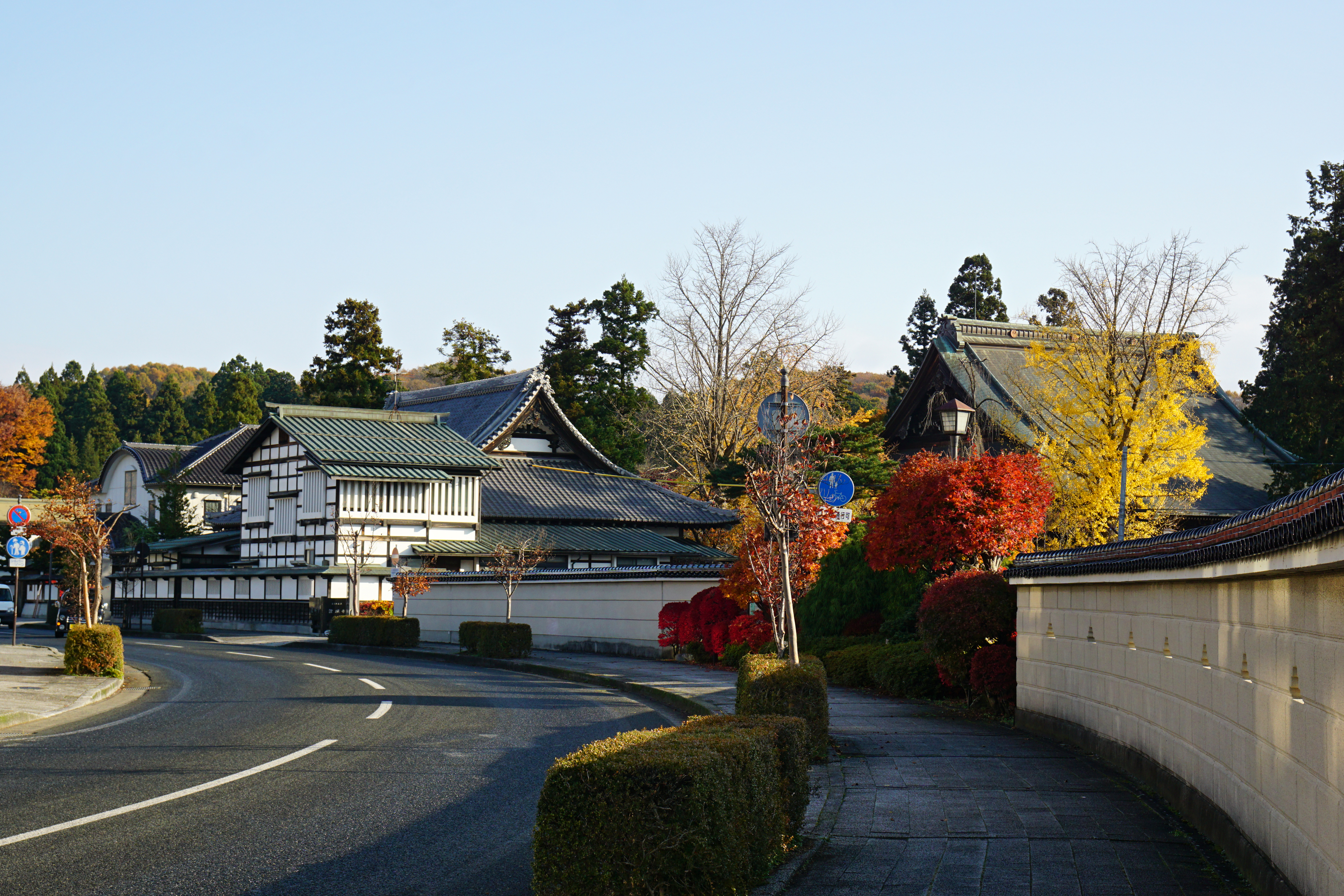 At Kitayama, Morioka, Iwate prefecture, Japan